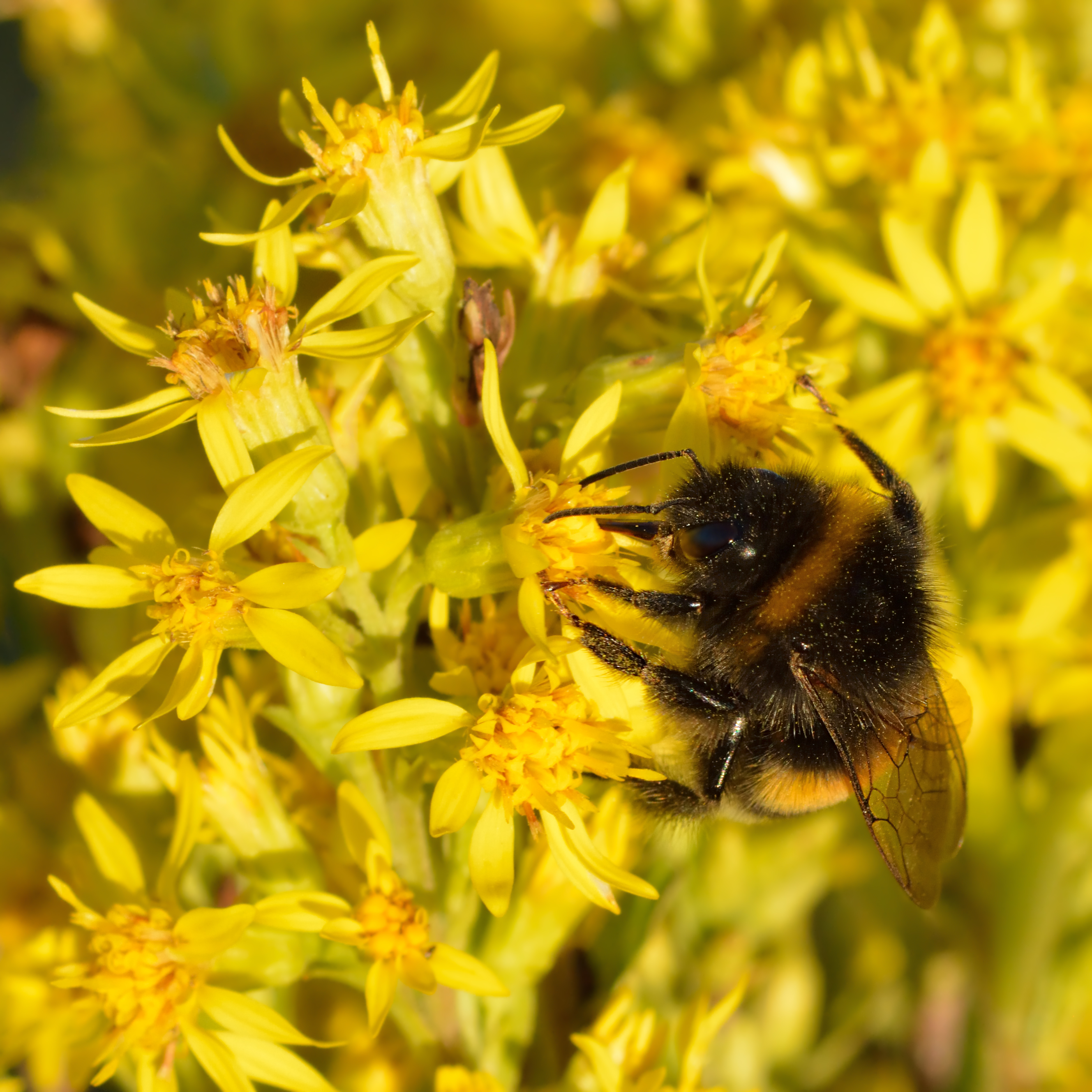 Cryptic bumblebee (Bombus cryptarum) on the European goldenrod (Solidago virgaurea). Keila, Northwestern Estonia.